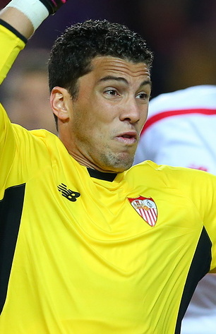 EFA Europa League 2015/16. Semi-finals. Return leg. May 5, 2016. Spain. Seville. Ramon Sanchez Pizjuan. 17 oC. Att: 41,269. Sevilla, Spain 3-1 (1-1) Shakhtar Donetsk, Ukraine Goals: 1-0 Gameiro (9), 1-1 Eduardo (44), 2-1 Gameiro (47), 3-1 Mariano Ferreira (59) Sevilla: Soria, Tremoulinas (Escudero, 74), Rami, Krychowiak, Carriço, Gameiro (Iborra, 82), N'Zonzi, Banega (Cristoforo, 89), Vitolo, Coke (c), Mariano Ferreira Unused subs: Rico, Pareja, Konoplyanka, Llorente Head coach: Unai Emery Shakhtar: Pyatov, Srna (c), Kucher, Rakits’kyy, Ismaily, Stepanenko, Malyshev, Kovalenko, Taison (Bernard, 76), Marlos (Nem, 84), Eduardo (Dentinho, 84) Unused subs: Kanibolotskyi, Kobin, Ordets, Facundo Ferreyra Head coach: Mircea Lucescu Booked: Marlos (11), Rakits’kyy (14) Kucher (20), Banega (30), Srna (48), Eduardo (61), Stepanenko (76), Vitolo (87), Ismaily (90) Referee: Bjorn Kuipers (Netherlands)